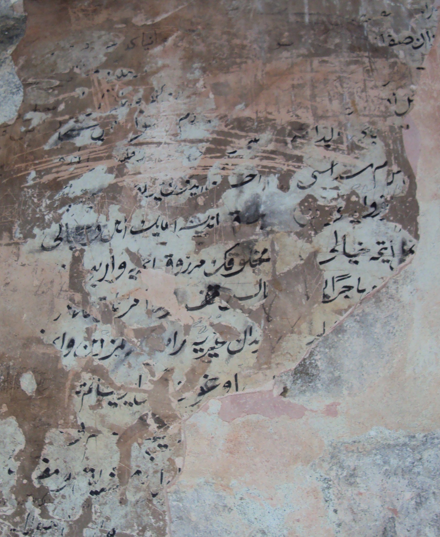 An Arabic inscription in the medieval Georgian Dolisq'ana church, now in Turkey.